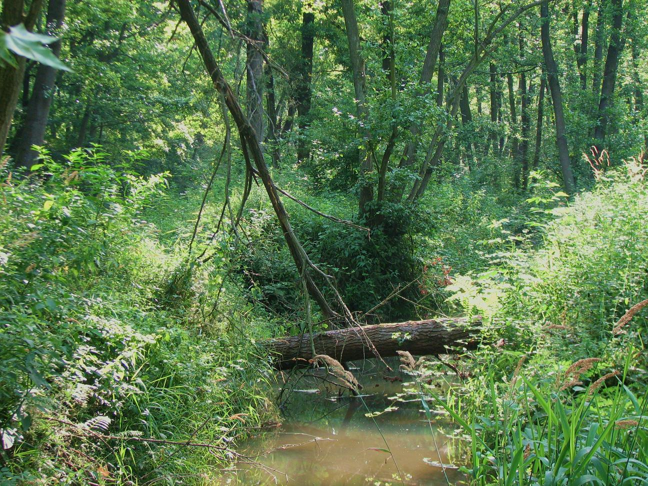 Nature reserve Palude Loja; an alder woodland in Lomellina, Italy. The area is protected as a Nature reserve and is a SPA-Special protection area